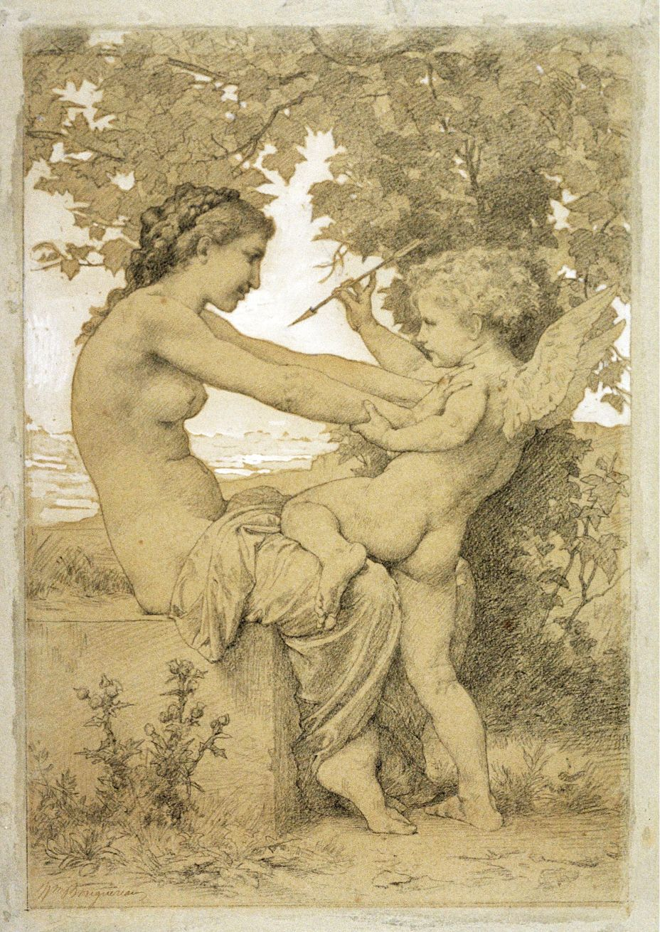 Image of s/m